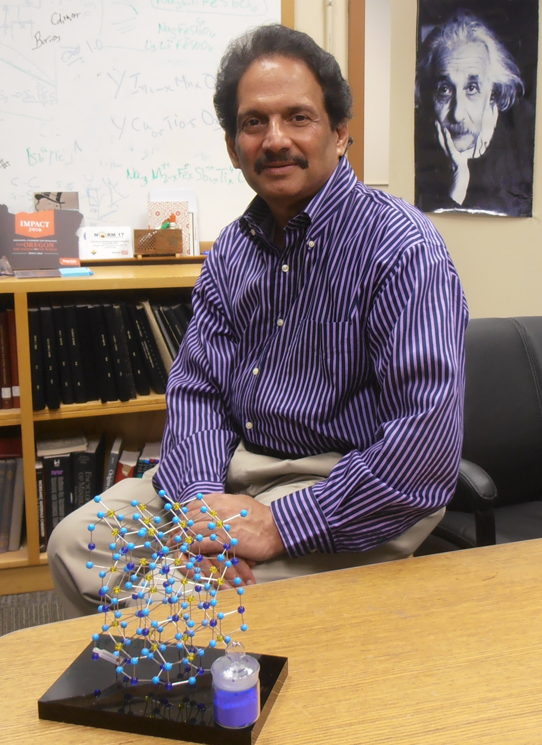 Photo of Mas Subramanian in his office at Oregon State University.